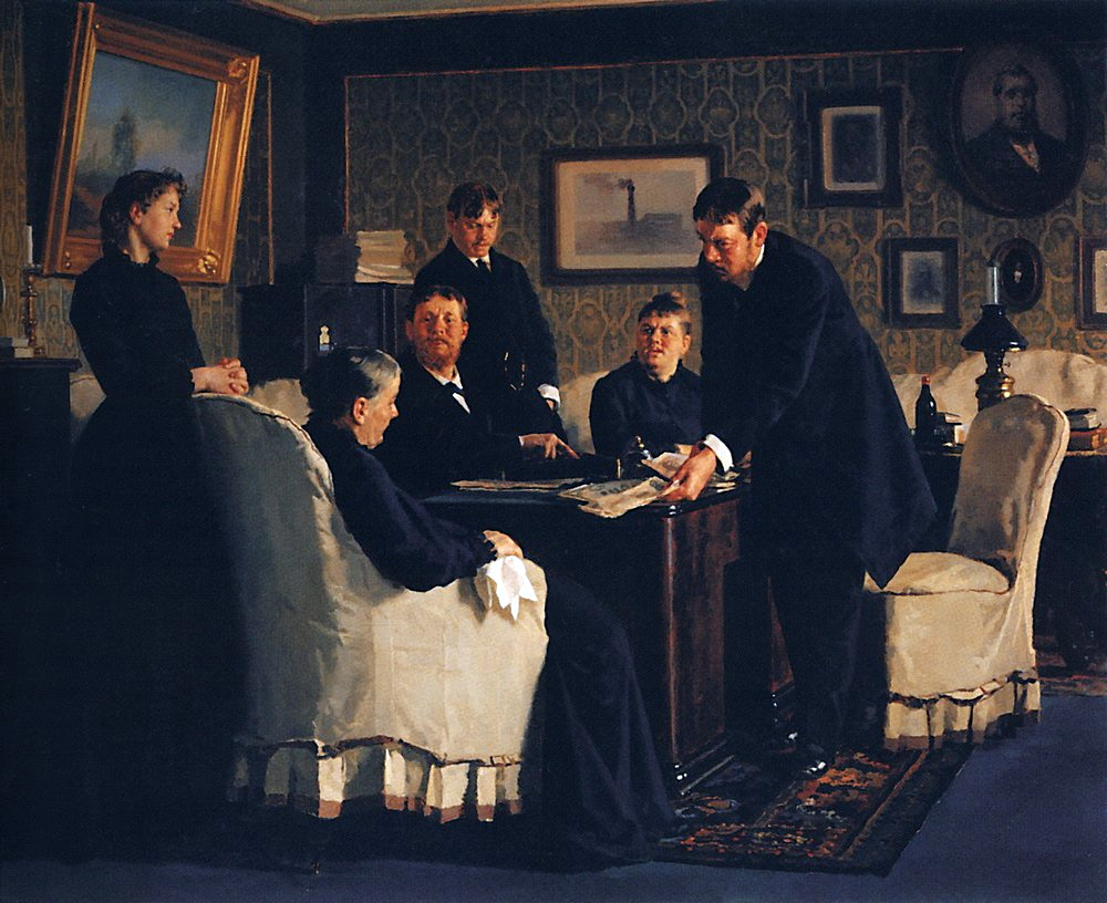 Nikolai Nevrev (1830-1904) Family payments (section on inheritance)